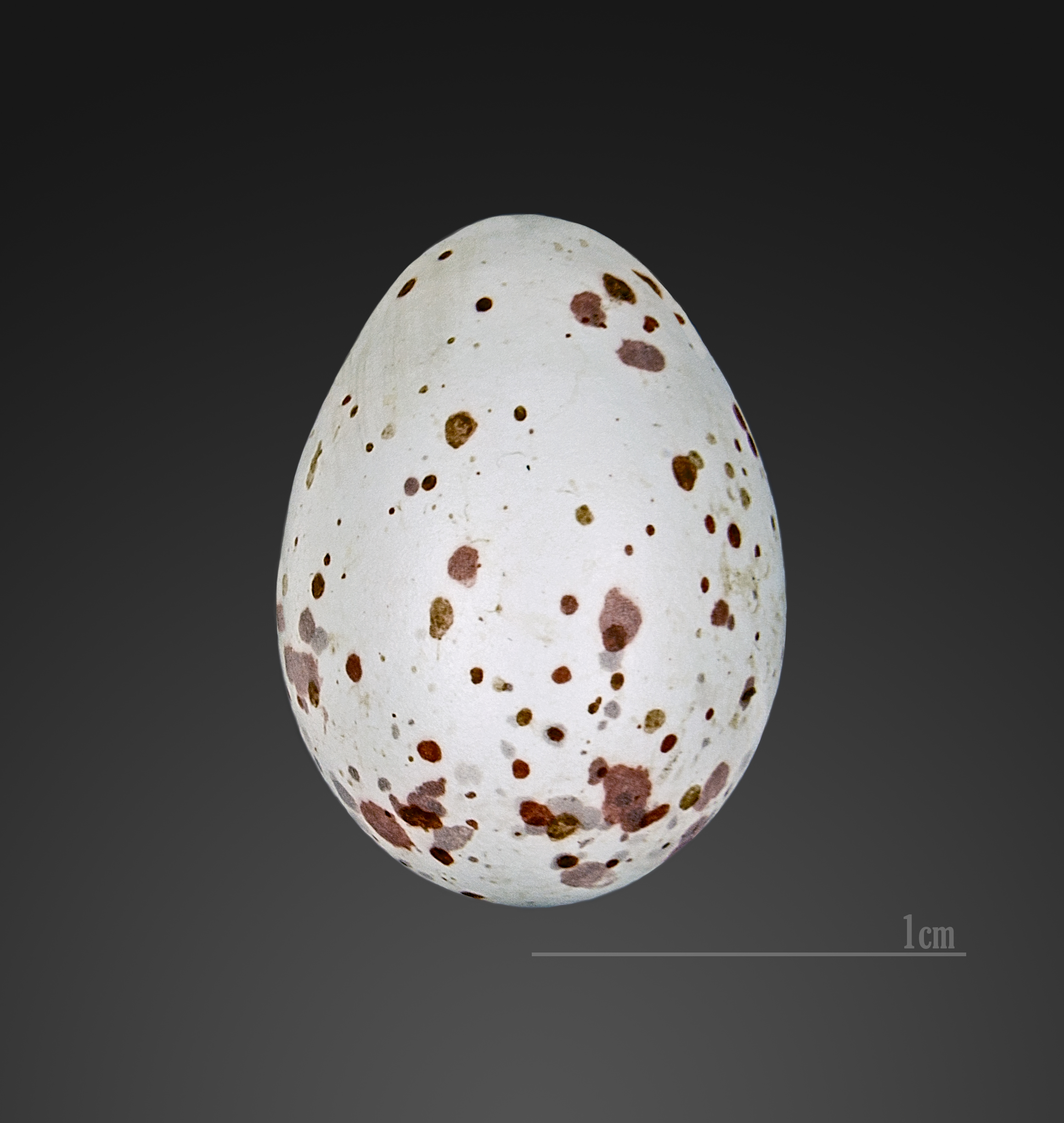 Egg of Zitting cisticola. Collection of René de Naurois / Jacques Perrin de Brichambaut.